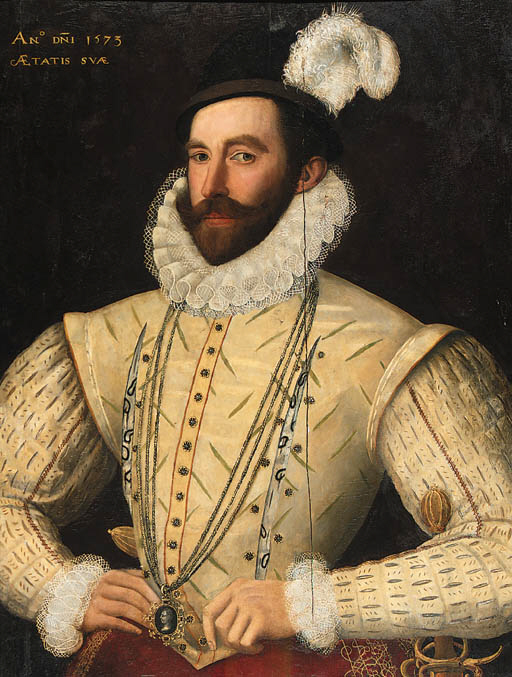 Portrait of Francis Hart of Lullingstone Castle, dated 1573.